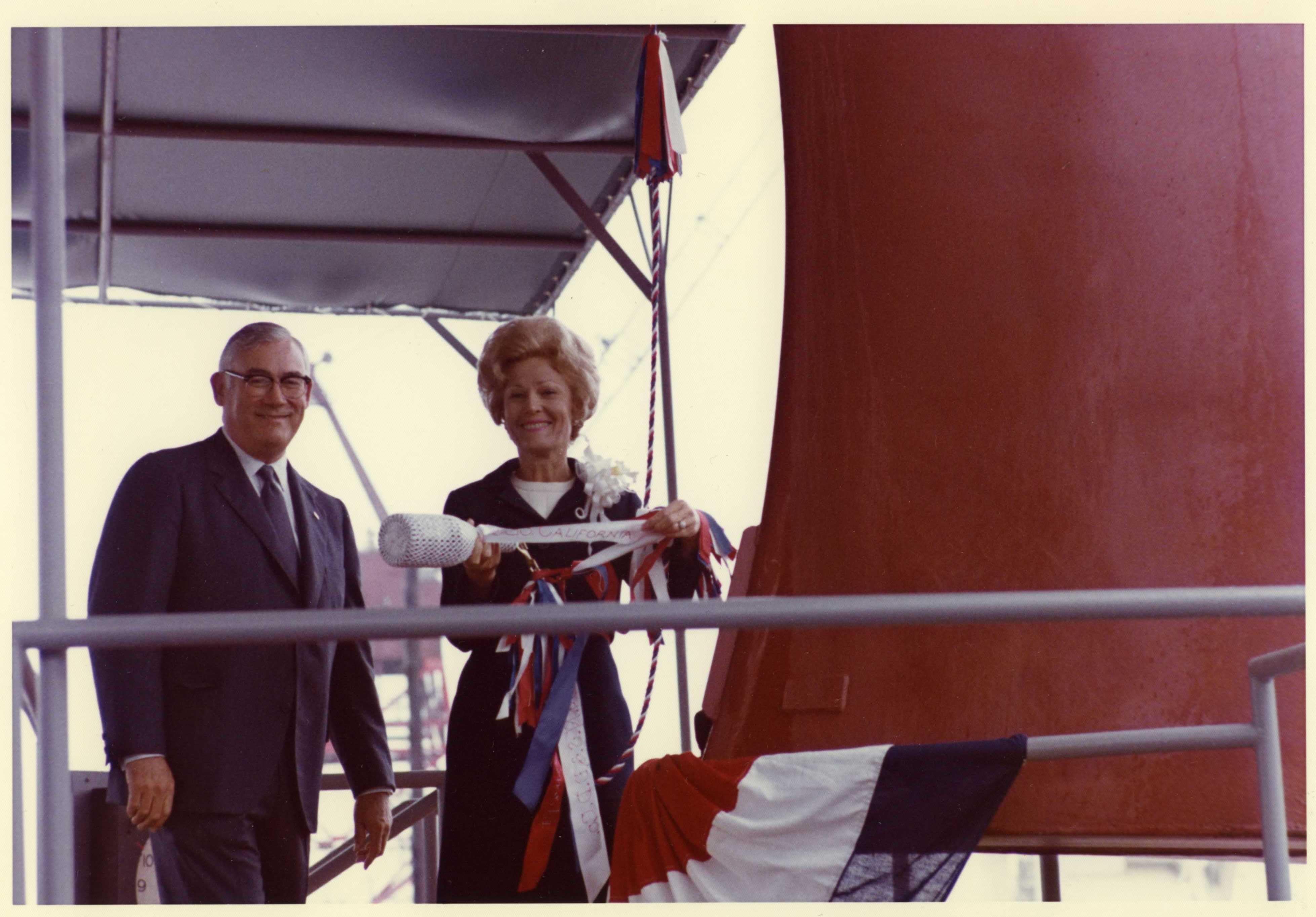 US First Lady Pat Nixon christens USS California, Nixon White House image C7339-17